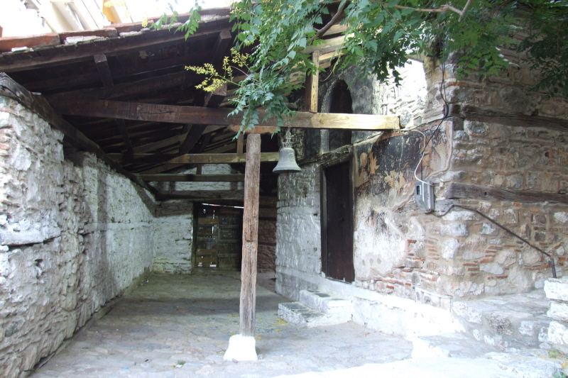 Church Agios_Nikalaos_Magaliou in Kastoria, Greece